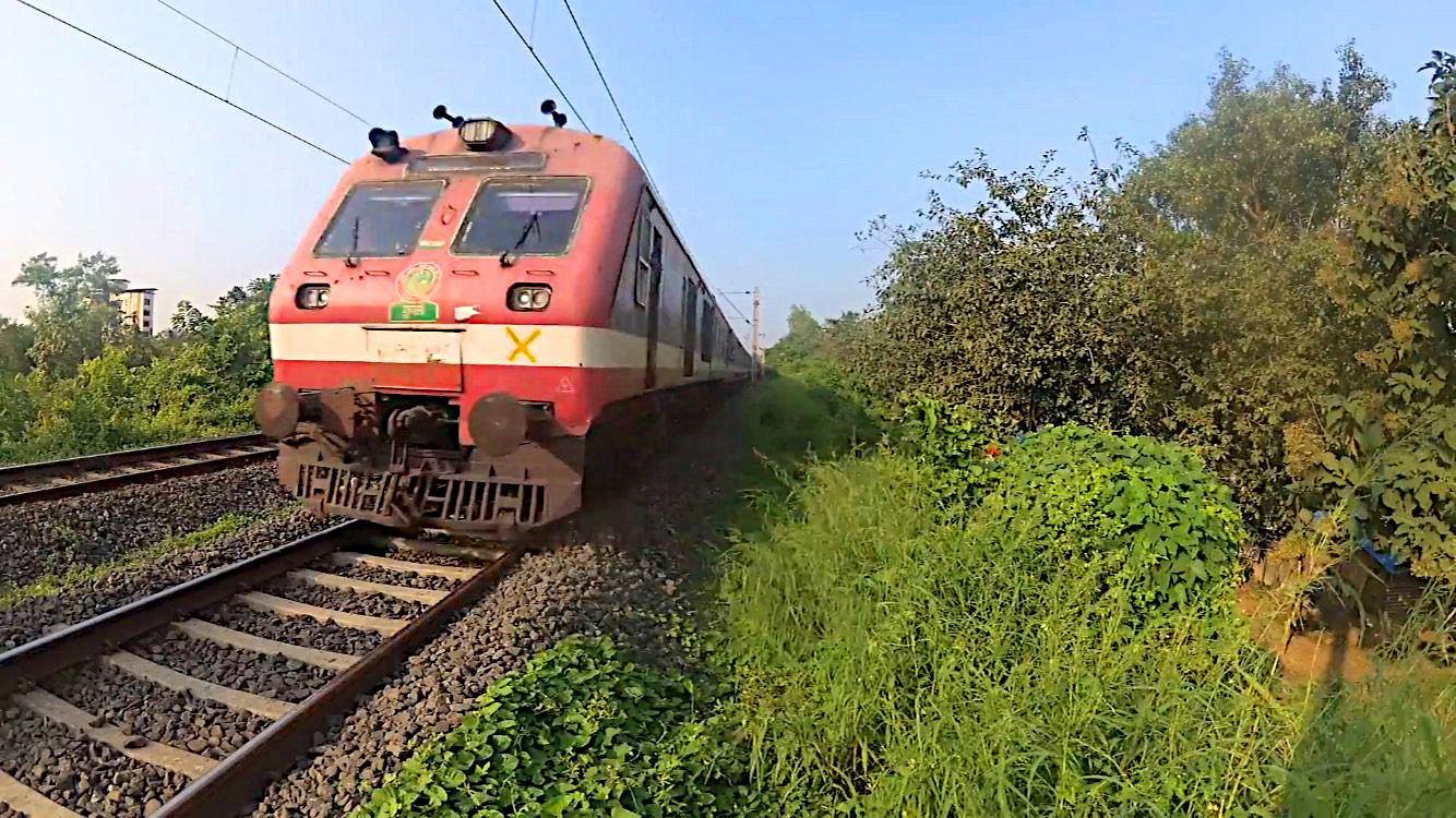 A photo I took of a DEMU at Panvel on one of its last runs.